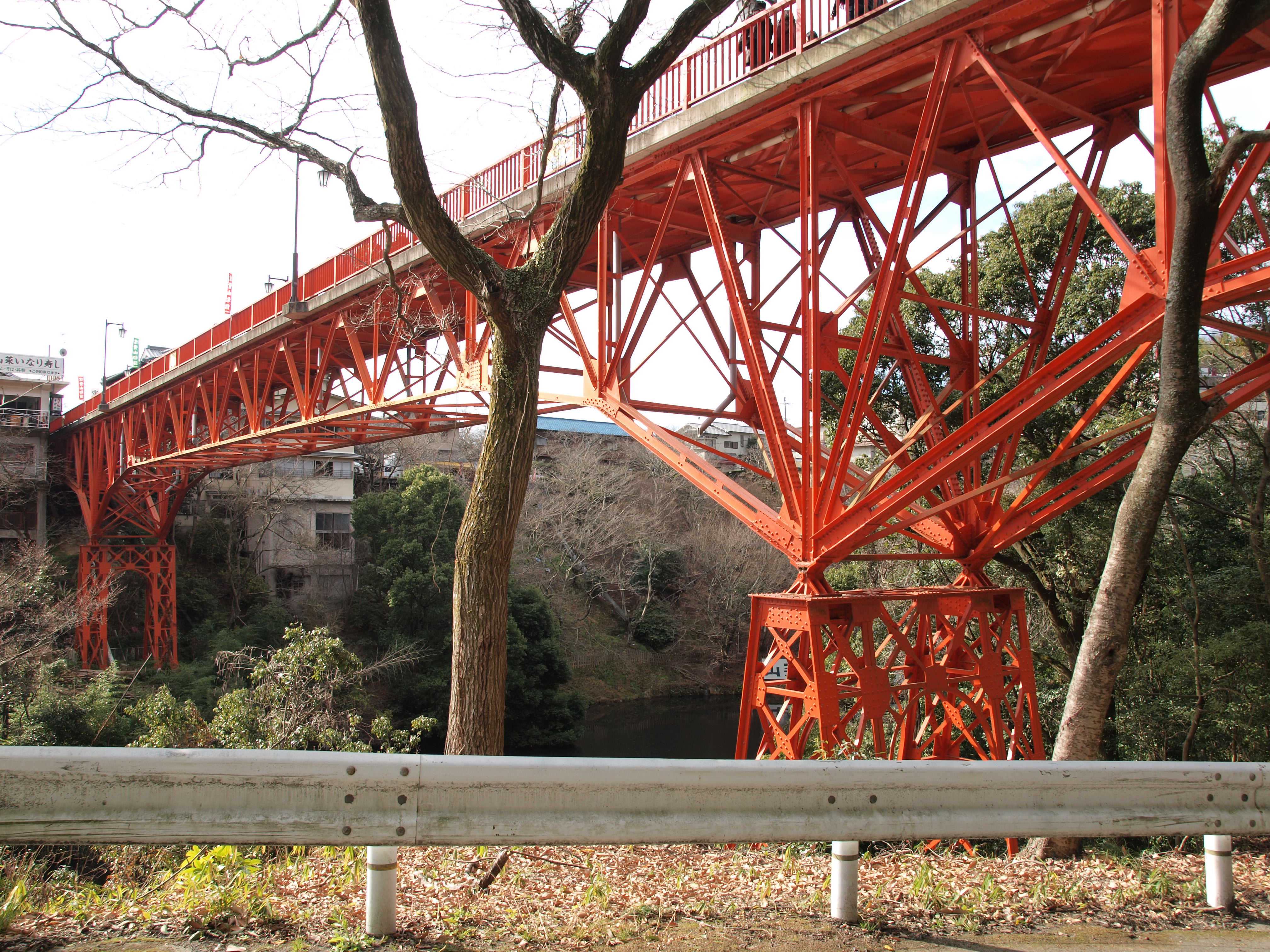 Kaiun-Bashi (Bridge) in Sango, Nara